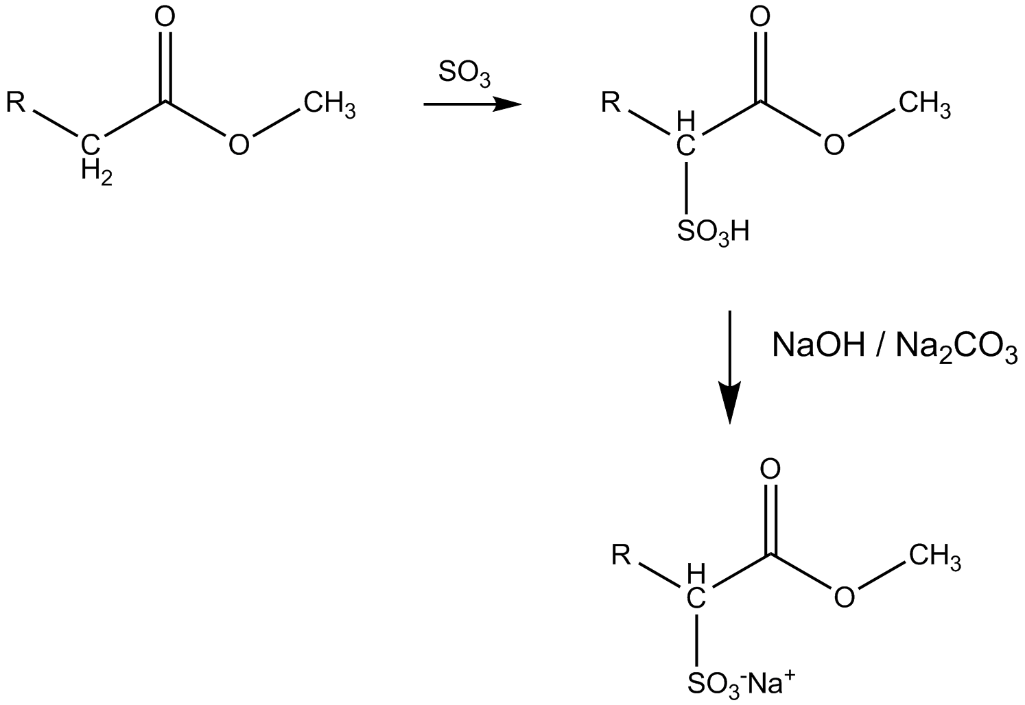 Synthesis of MES (methyl ester sulfonates): basic reactions